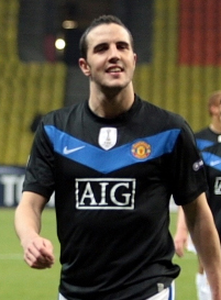 John O'Shea, Irish footballer. CSKA Moscow - Manchester United